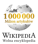 A celebratory version of the Polish Wikipedia logo, created for the occasion of the millionth article. PNG version.